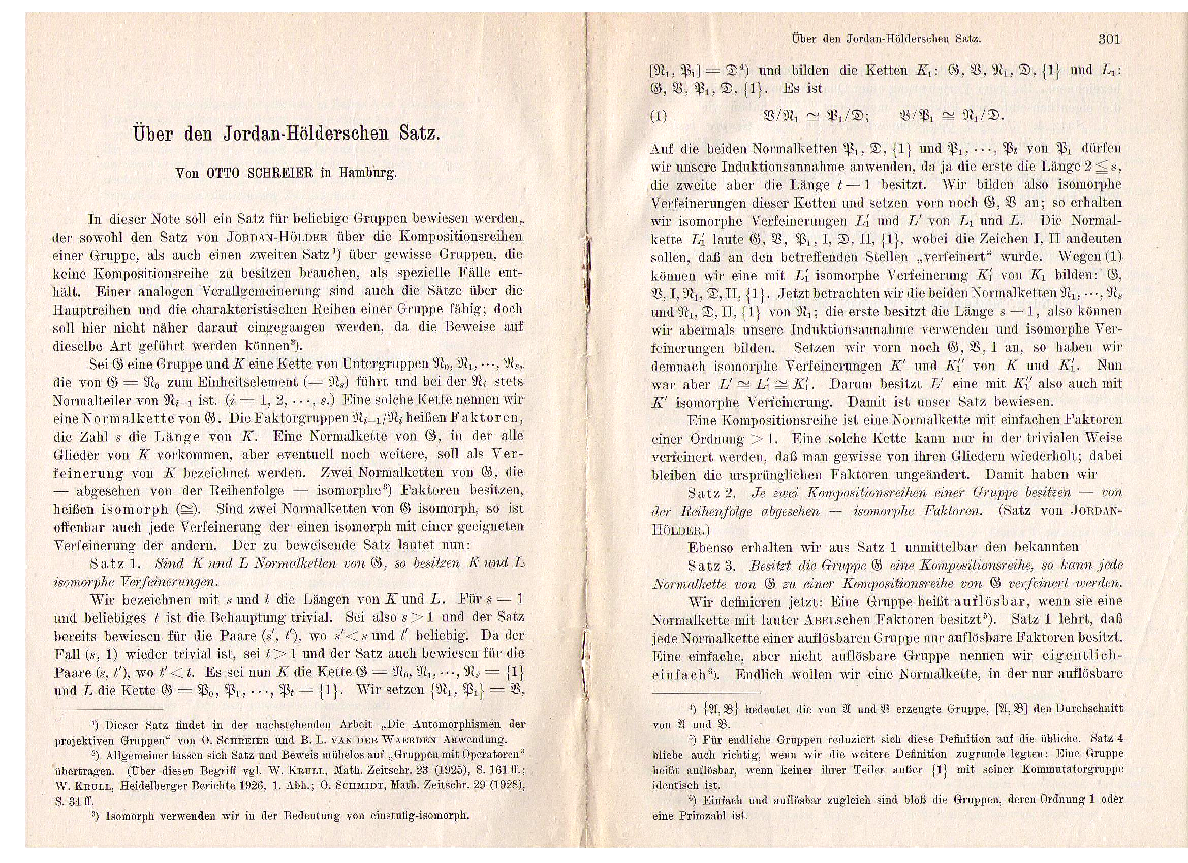 Scan of 2 (from 3) pages of an article of Schreier (1928)